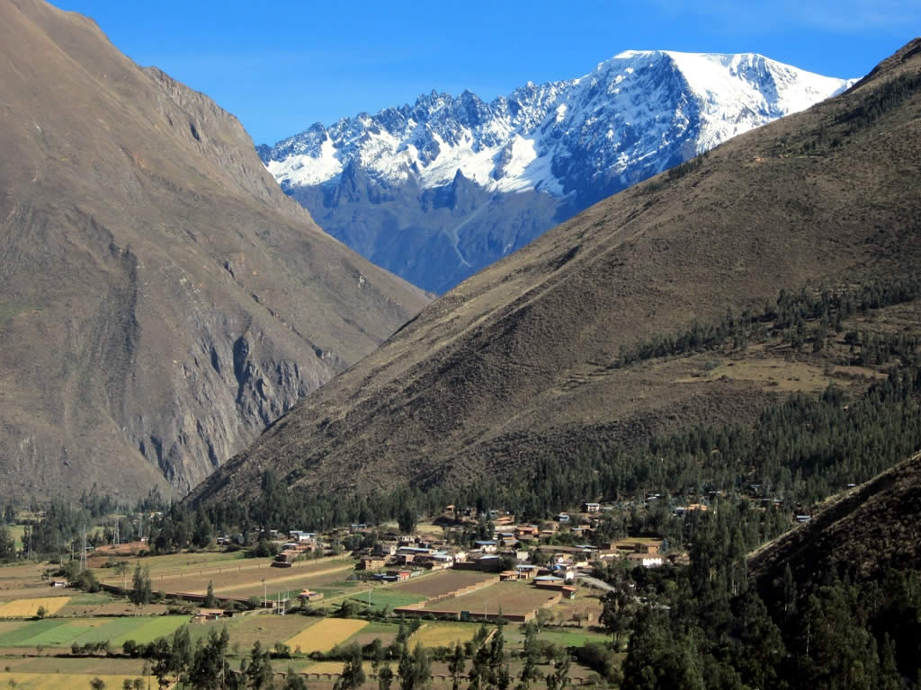 The eternal snows of the Andes rise above the Sacred Valley near Ollantaytambo, Peru.